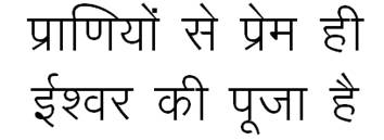 Hindi Script